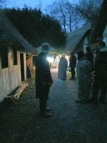 Night filming at Little Woodham